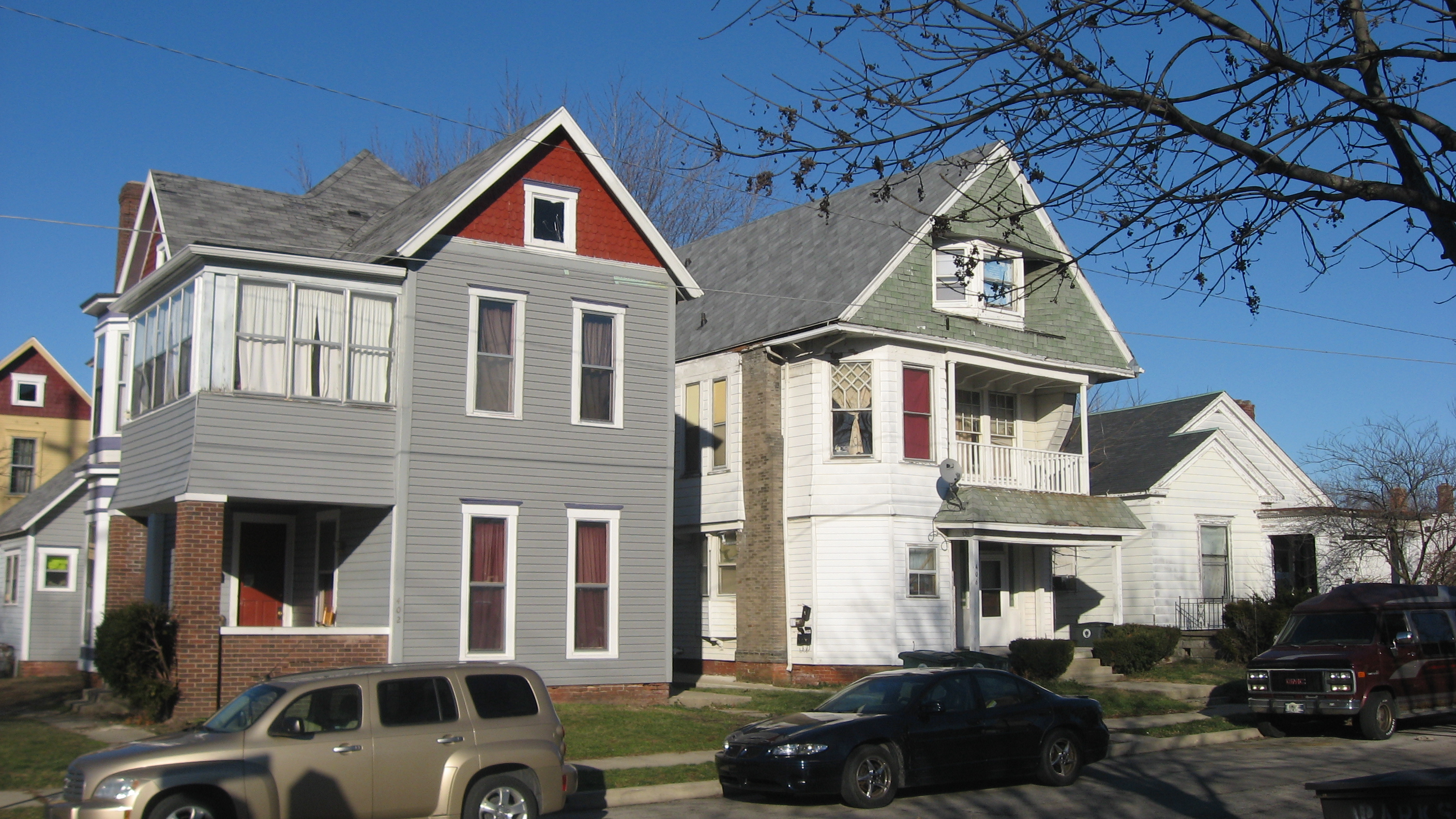 Houses on the northern side of the 400 block of E. Gilbert Street in Muncie, Indiana, United States. From left to right, they were built in 1900, 1885, and 1880. This block is part of the Goldsmith C. Gilbert Historic District, a historic district that is listed on the National Register of Historic Places.